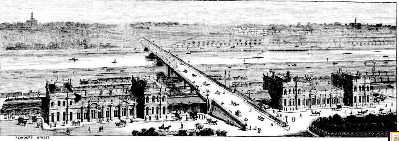 Flinders Street Station Competition winner, Illustrated Australian News Wed 16 May 1883